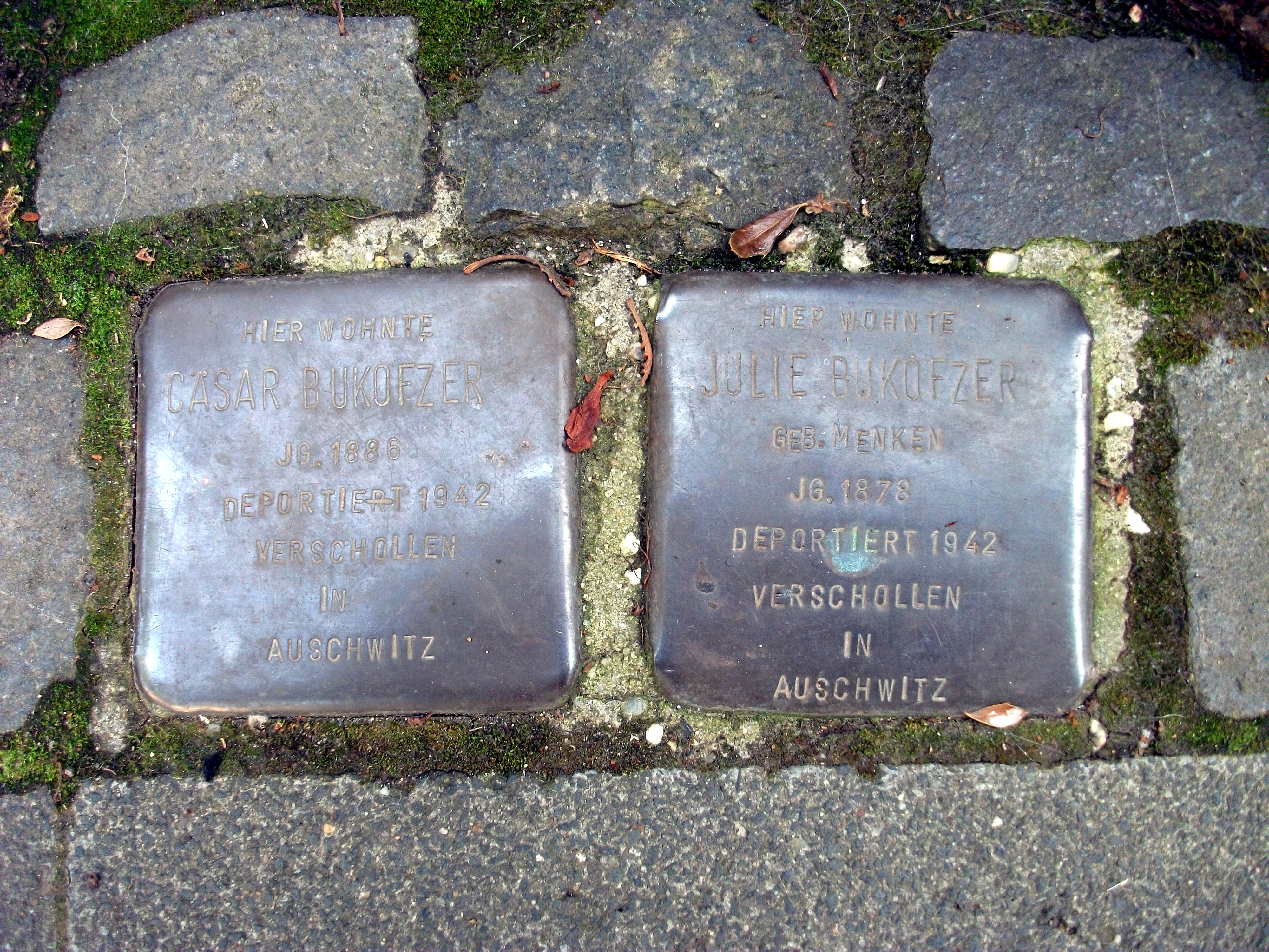 Stolpersteine Cäsar Bukofzer, Julie Bukofzer, Argelanderstraße 10, Bonn